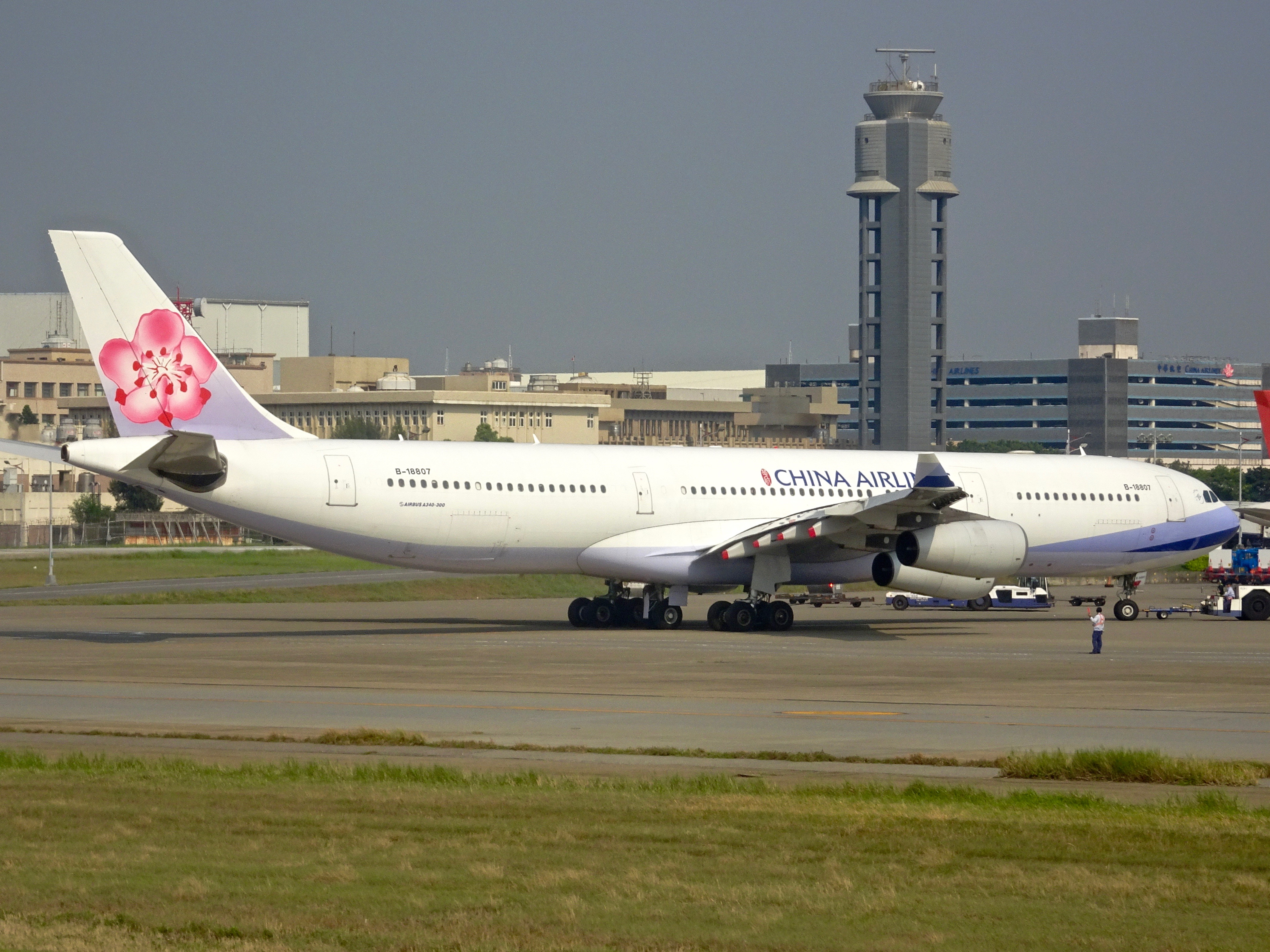 China Airlines Airbus A340-300 B-18807 @ TPE RCTP